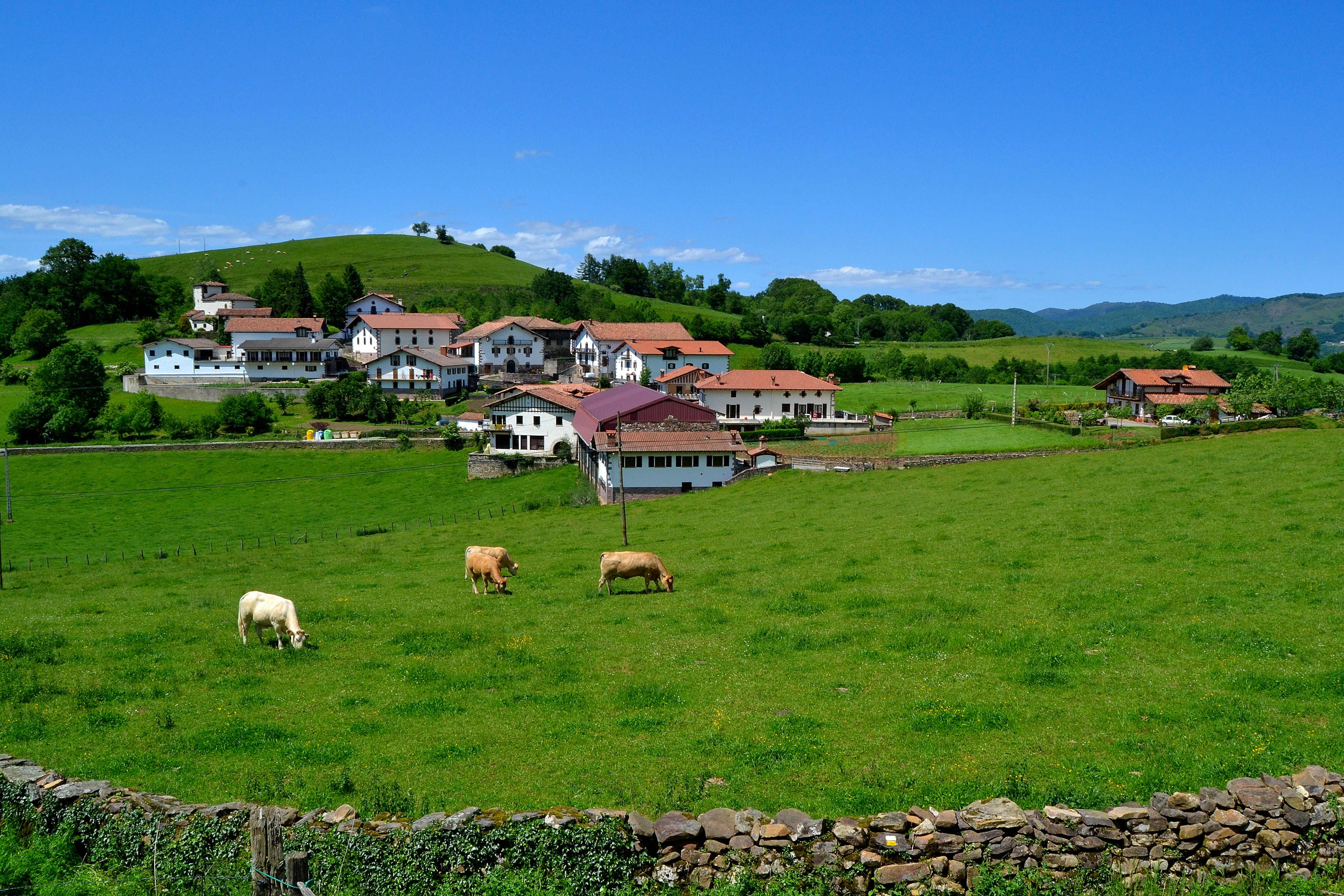 Aniz. Baztan, Navarre. Basque Country.